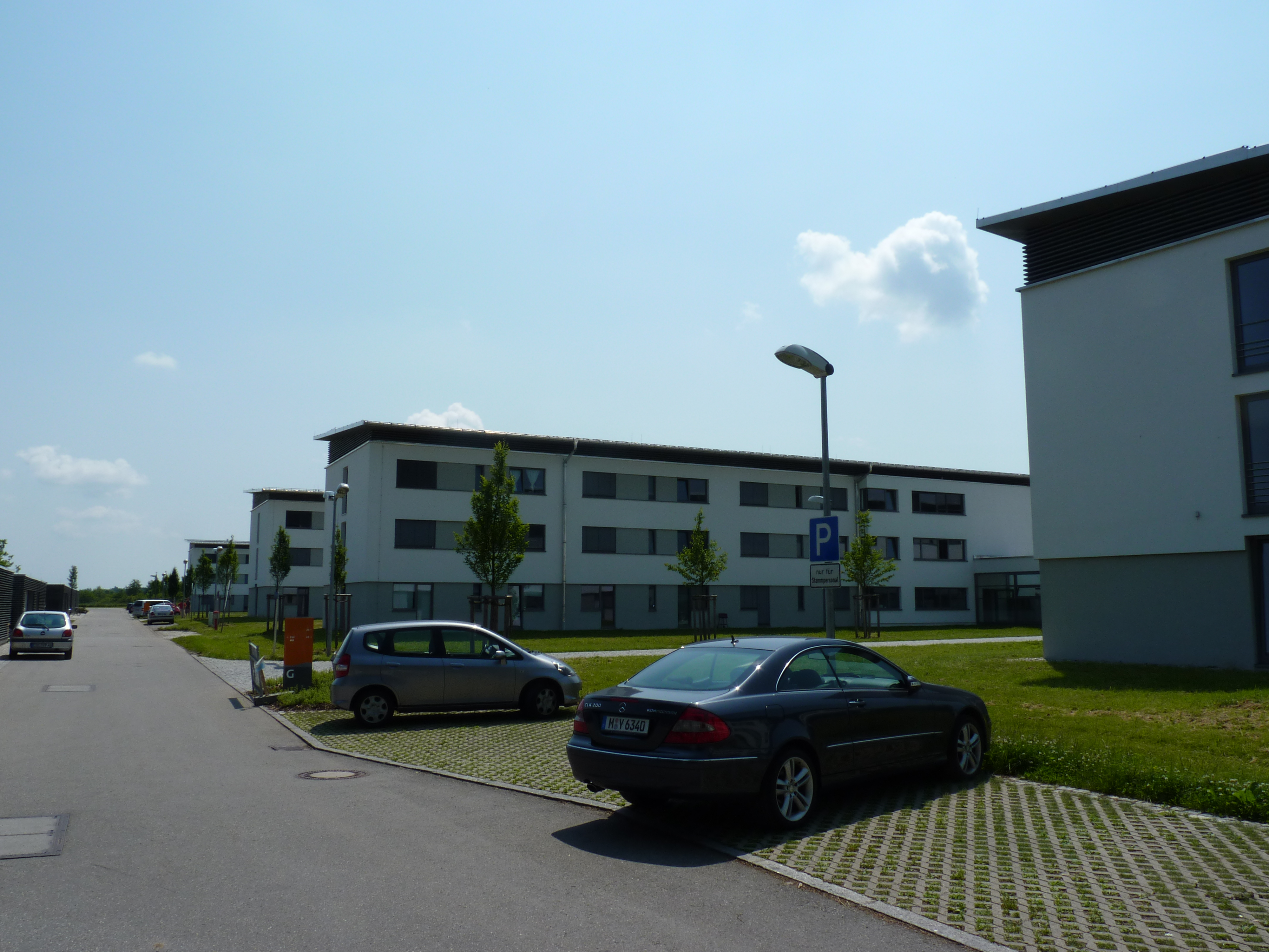 Student dormitories at Bundeswehr University of Munich Studentenwohnheime der Universität der Bundeswehr München